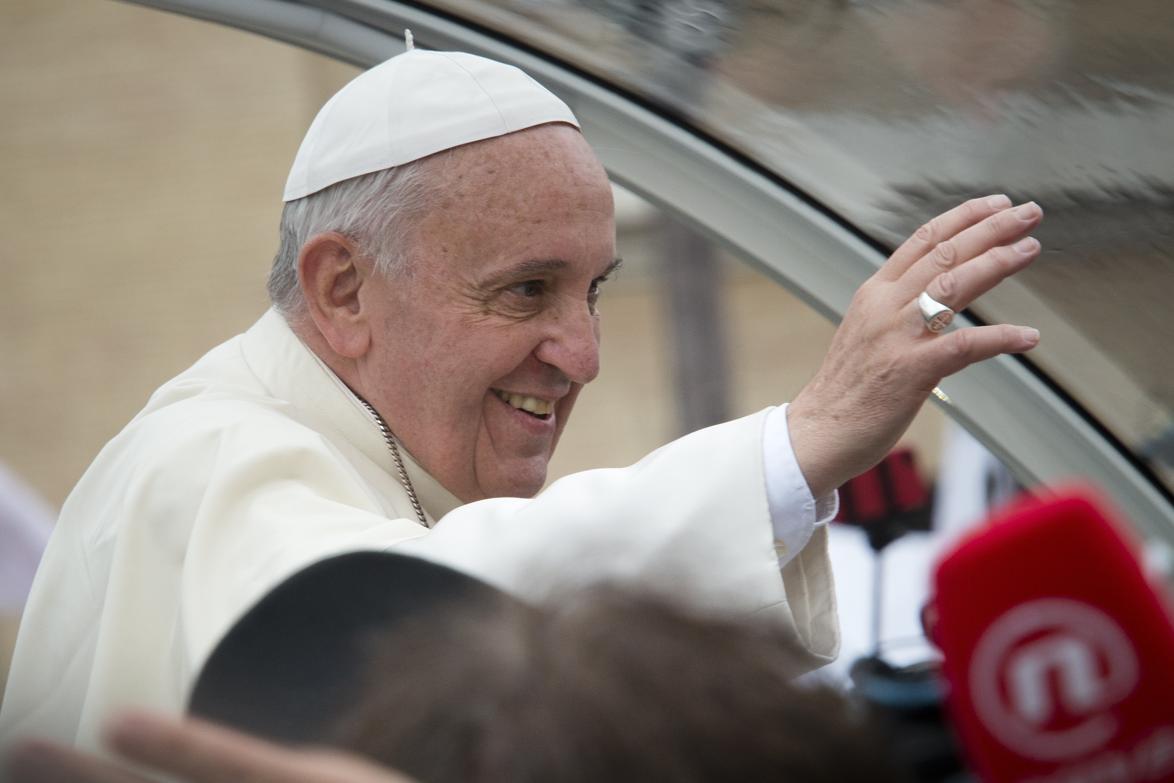 ROME,VATICAN 27 April: Images from the Canonization of Saint John XXIII and Saint John Paul II by Pope Francis and the Catholic Church. This event, attended by millions is amongst the most important in current history. JEFFREY BRUNO/ALETEIA